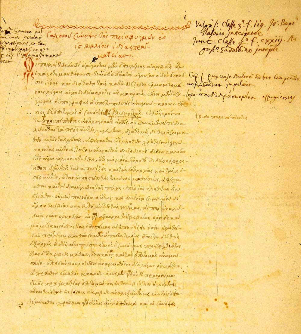 Galen. De pulsibus. (Manuscript; Venice, ca. 1550). This Greek manuscript of Galen’s treatise on the pulse is interleaved with a Latin translation.